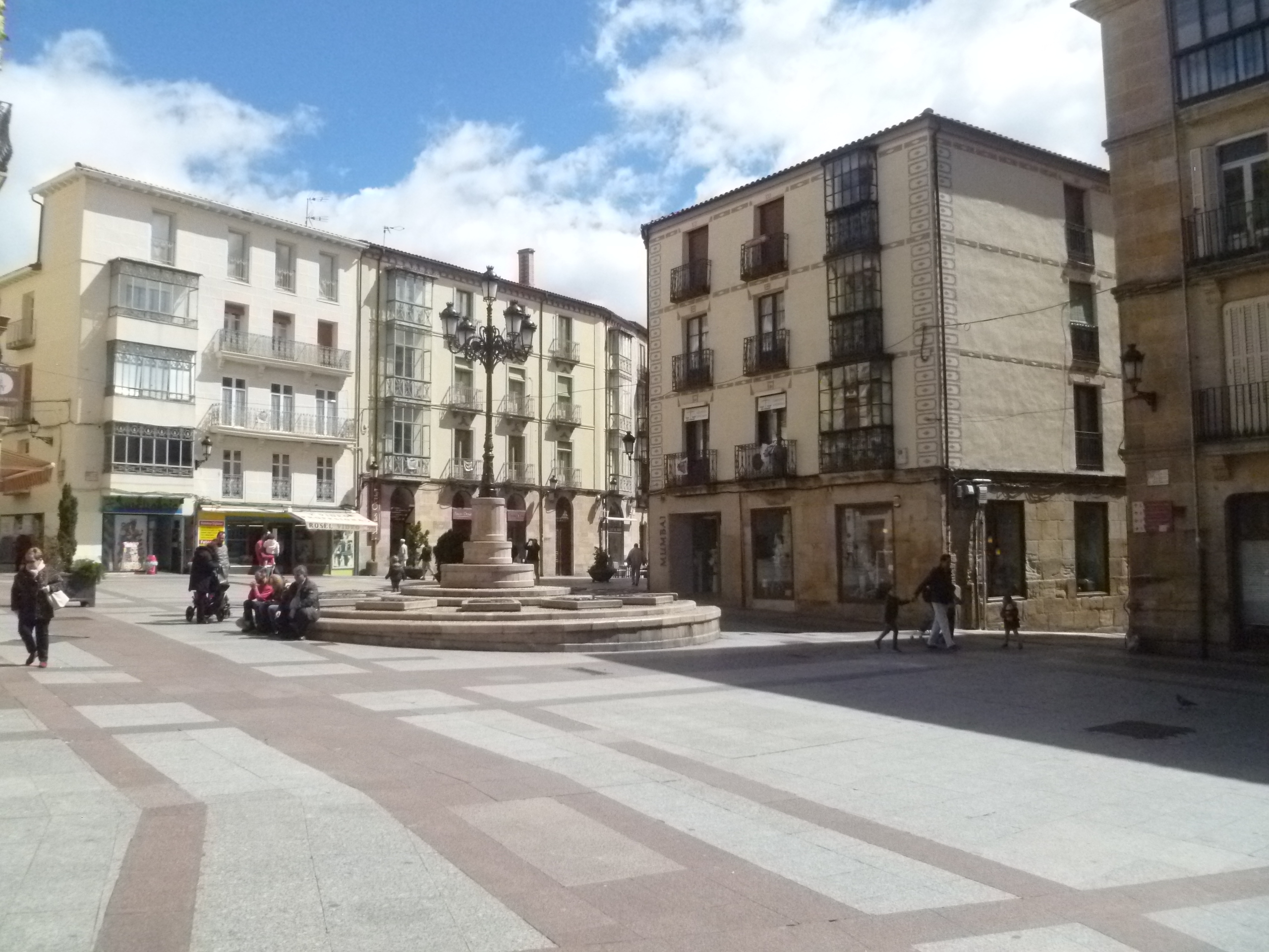 Plaza del Rosel y San Blas (Soria, Spain)